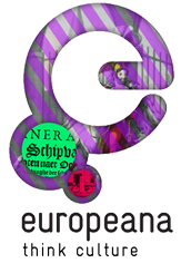 This is the official logo of Europeana